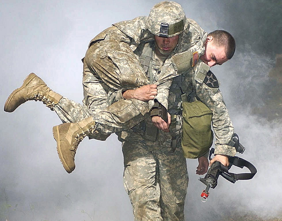 Capt. Charles Moore, commander, Company C, 202nd Brigade Support Battalion, 4th Brigade, 2nd Infantry Division, performs the fireman's carry of a "casualty" during the nuclear, biological and chemical portion of the Expert Field Medical Badge training and testing here Sept. 14. Photo by Spc. Leah R. Burton. This photo appeared on